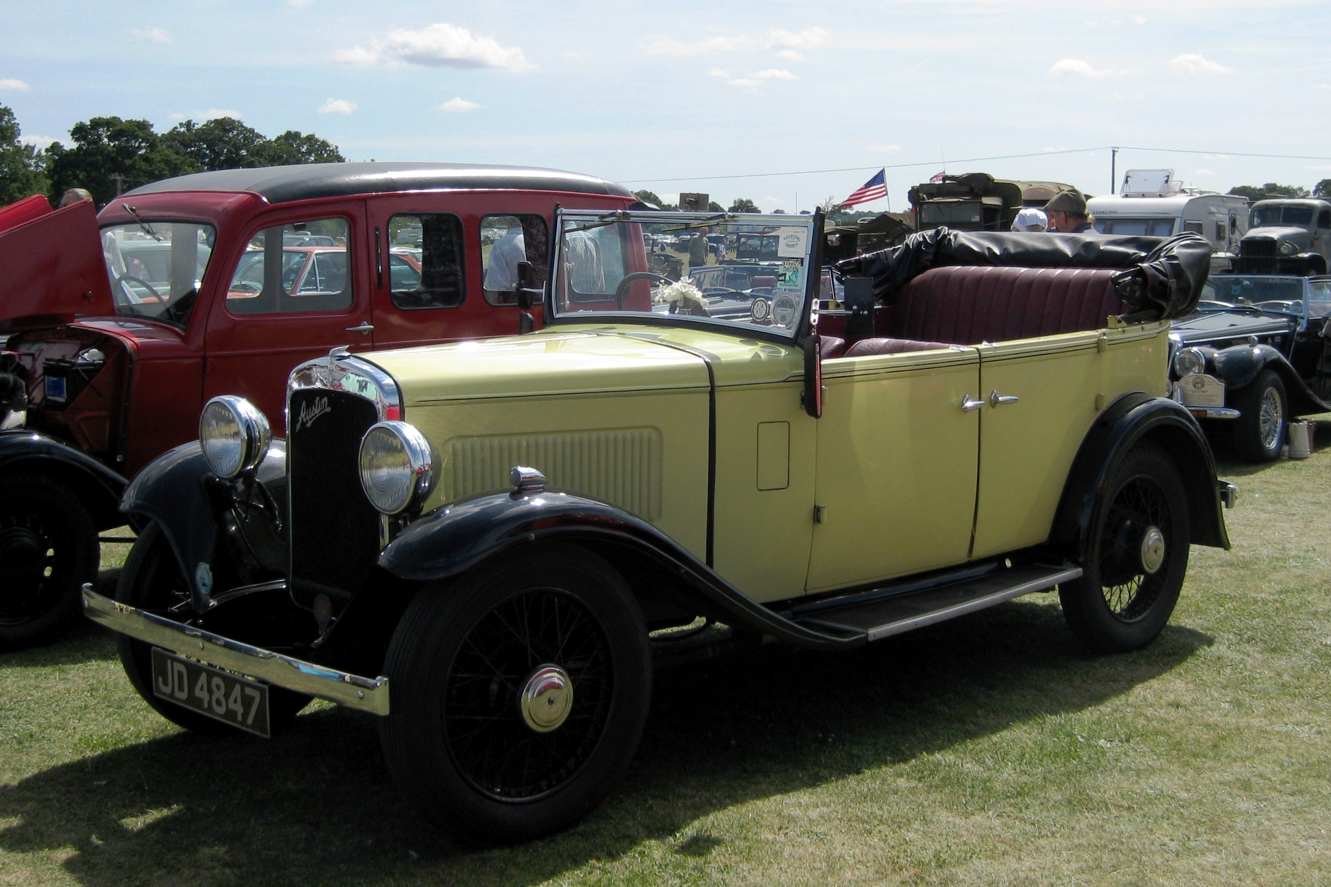 Torpedo bodied Austin 12 4 door. According to UK tax office car was first registered 30 November 1934 and has an engine capcity of 1479 cc